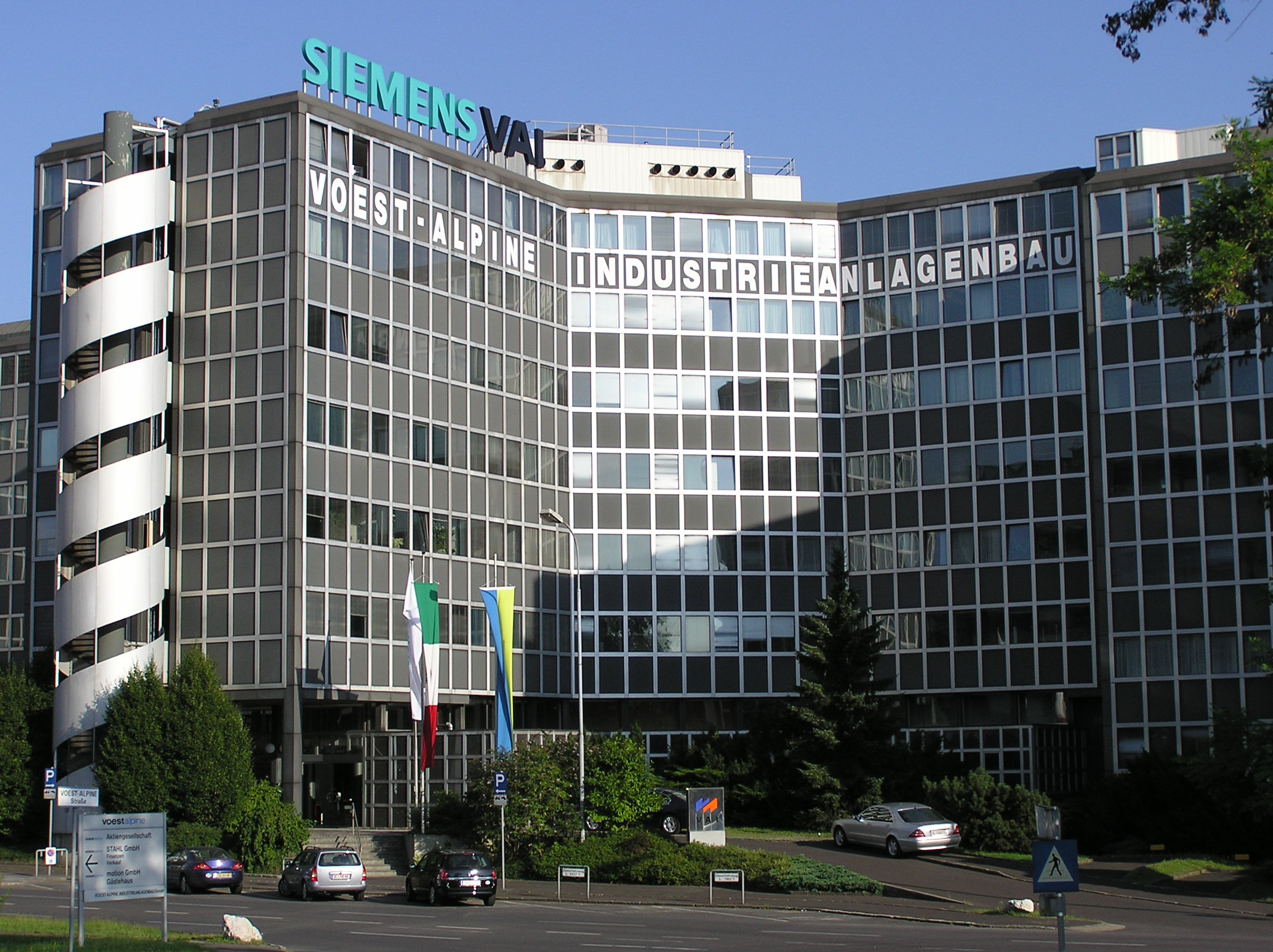 VOEST-Alpine Industrieanlagenbau office building in Linz.